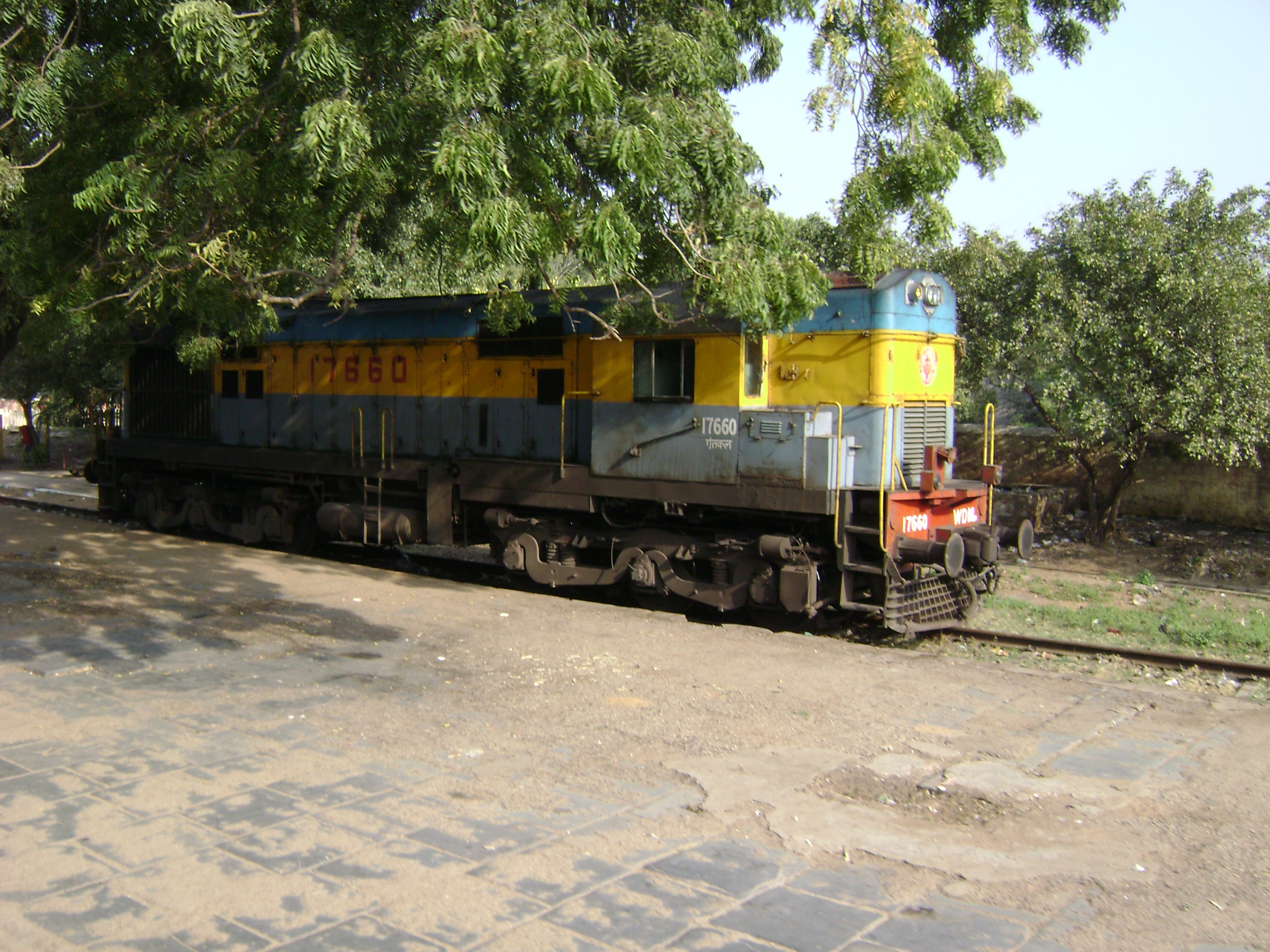 17660 WDM-2 loco at (Dronachalam) Dhone Junction Loco road number: #17660 Loco class: WDM2 Specialised in: Passenger traffic Loco shed: Guntakal (GTL) Status: Scrapped in 2017